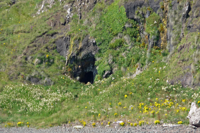 Uamh Fhraing Massacre Cave. The small entrance to the cave where around 400 MacDonalds are said to have been killed in 1577. They were hiding in the cave from a MacLeod raid, and were suffocated when the MacLeods tried to smoke them out.